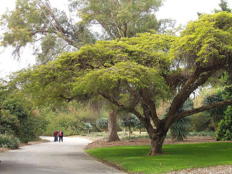 Los Angeles County Arboretum; near Australian collection.